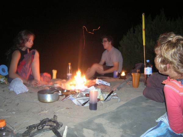 Campfire